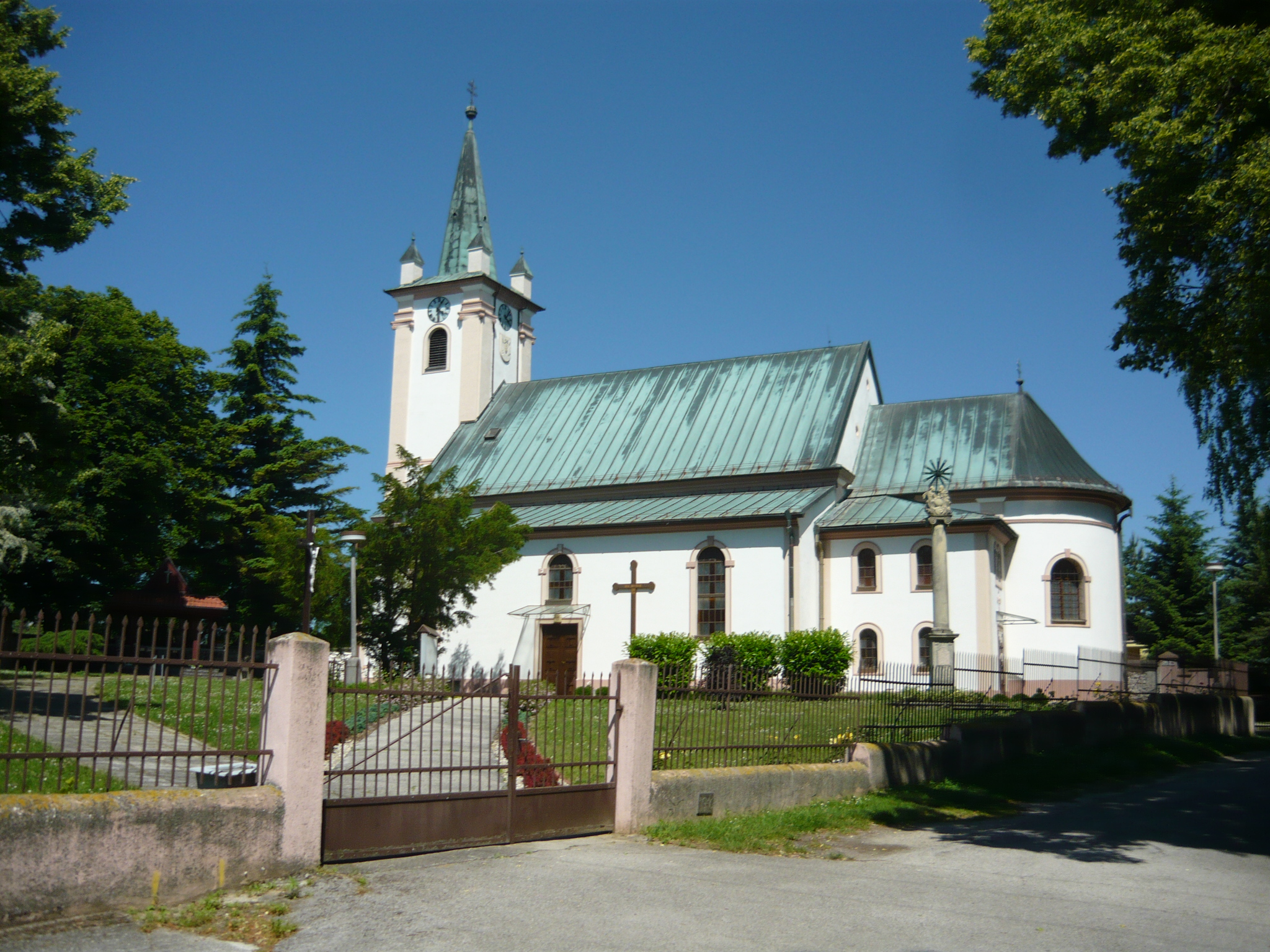 St. James the Greater’s church in Prašice, Slovakia.